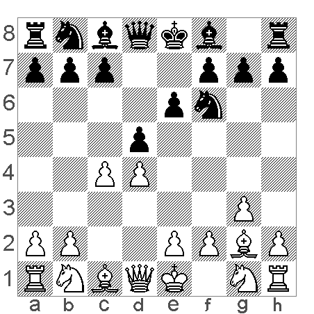 chess diagram Catalans gambit Source: CBlight + my processing